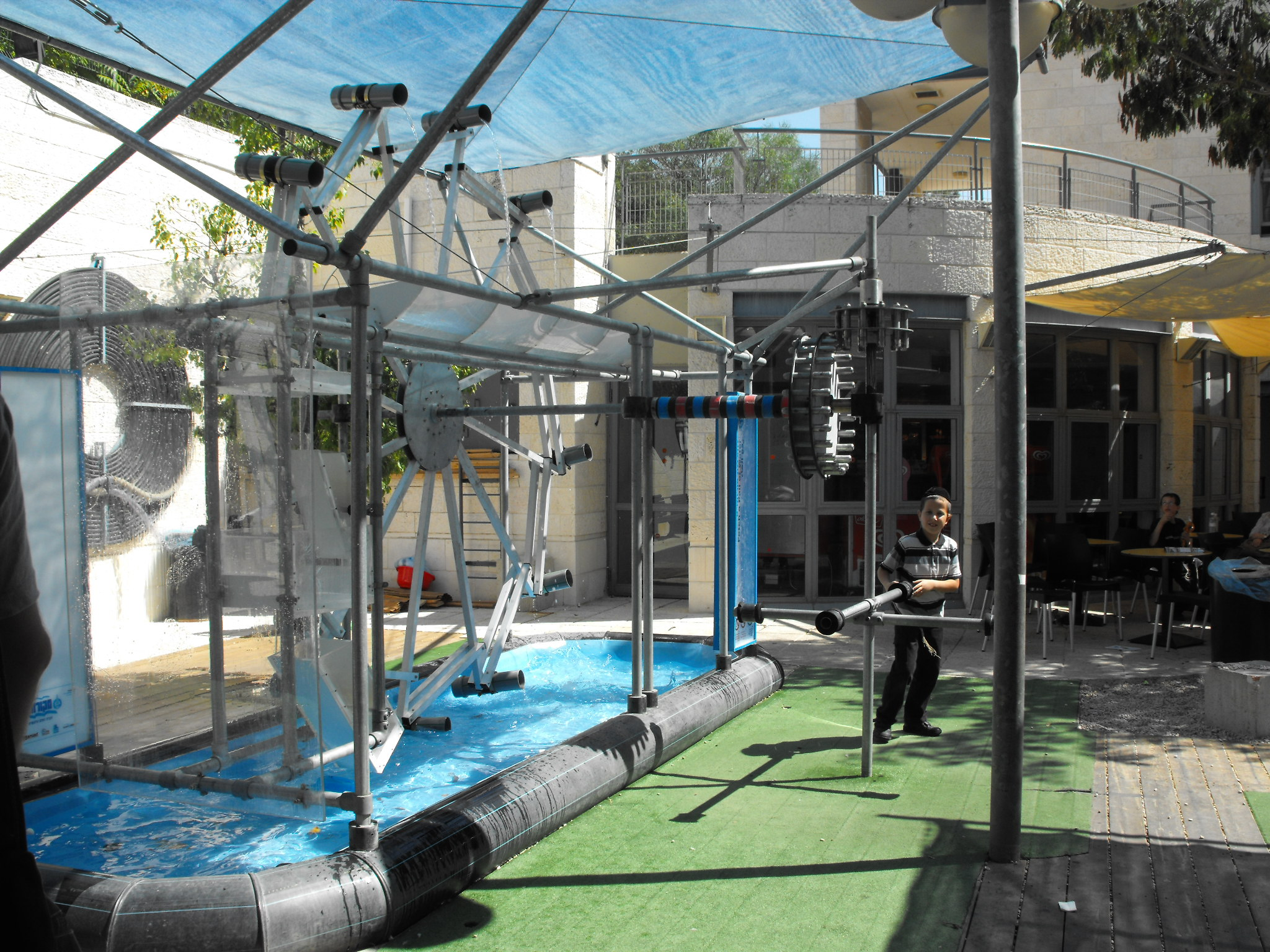 Waterworks: How is water pumped out and lifted up? How is it transported from place to place?